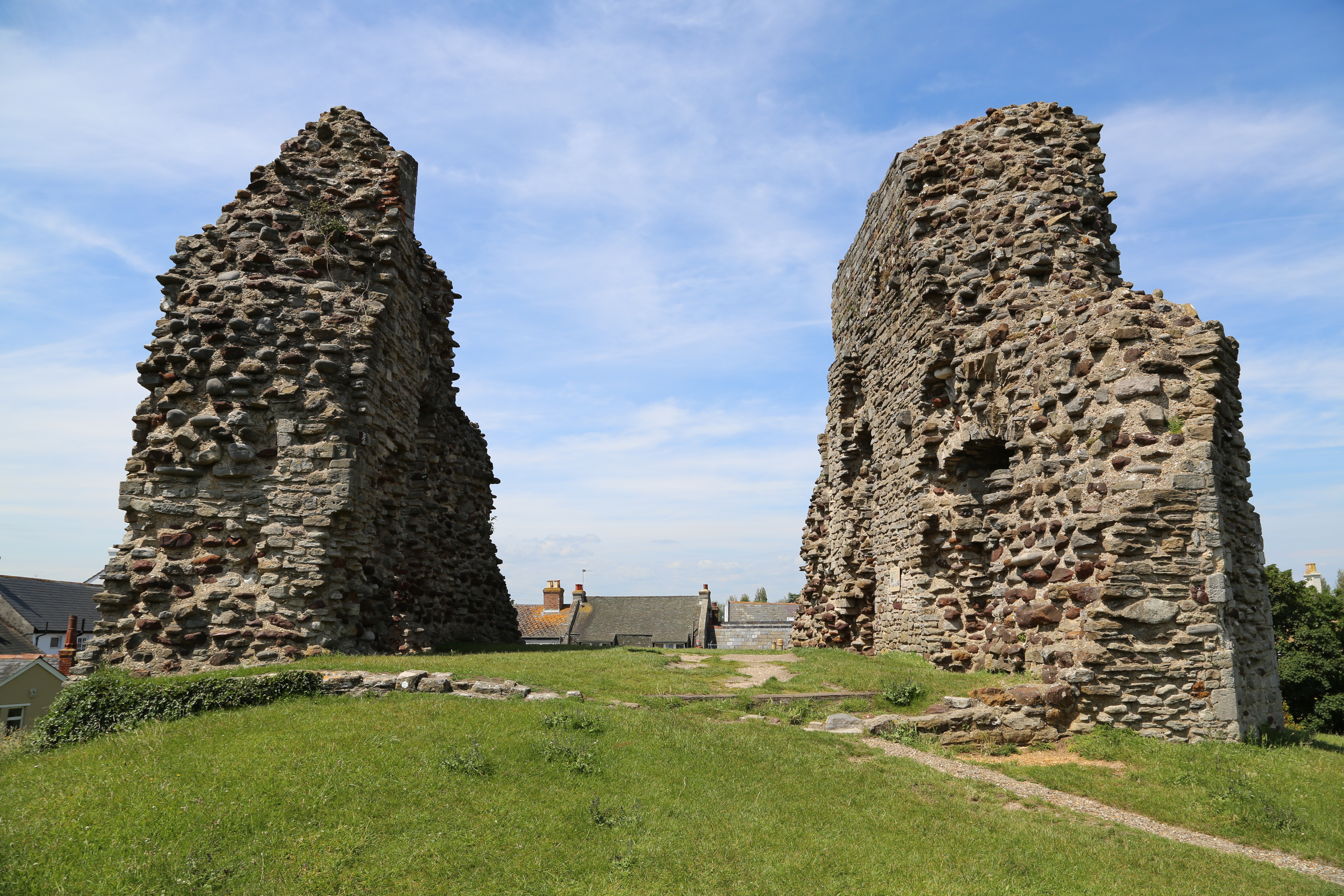 Photo of the two remaining walls of the keep of Christchurch Castle